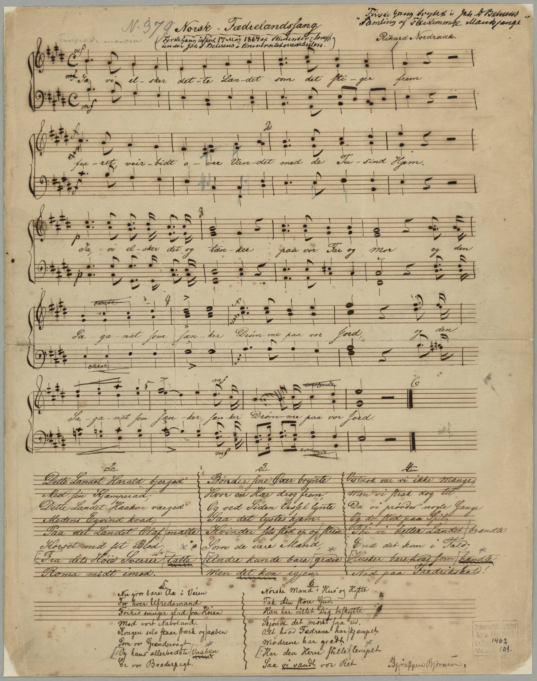 Rikard Nordraak's own (cleanly written out) manuscript for "Norsk Fædrelandssang" (later known as "Ja, vi elsker". Owned by The National Library of Norway.